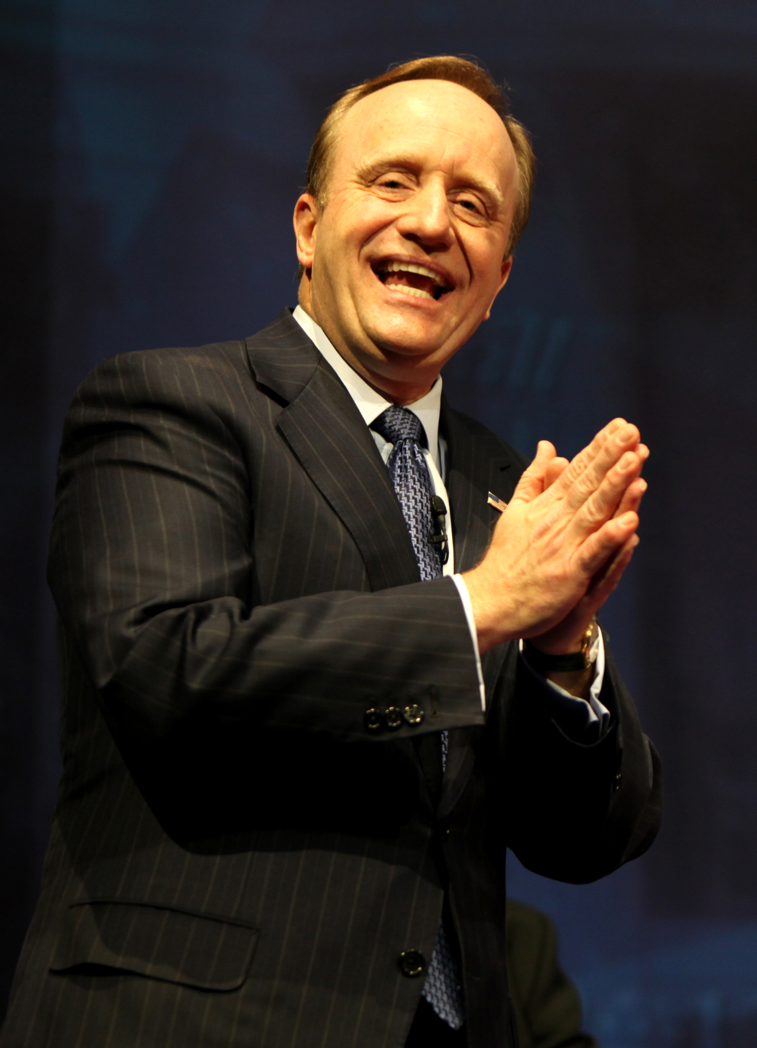 Paul Begala speaking at CPAC in Washington D.C. on February 11, 2012.